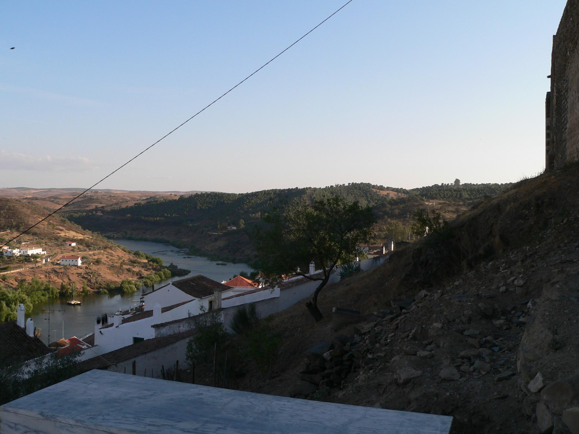 Walls of Mertola´s Castle (Mértola) having Guadiana river as background.